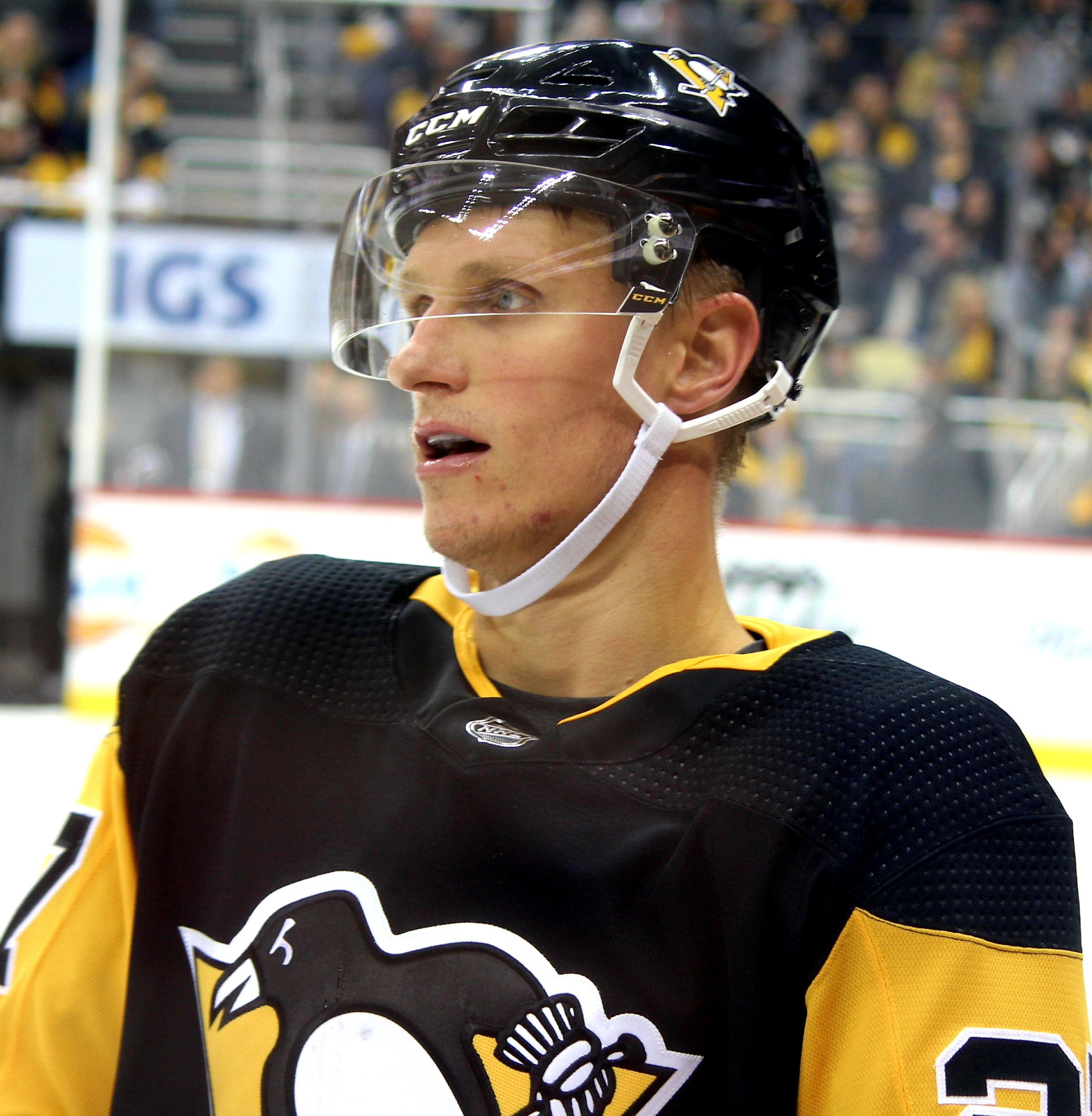 Pittsburgh Penguins forward Nick Bjugstad